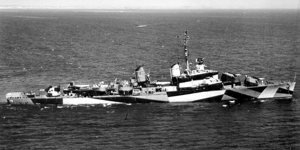 The U.S. Navy destroyer USS Lowry (DD-770) off San Pedro, California (USA), on 5 August 1944.